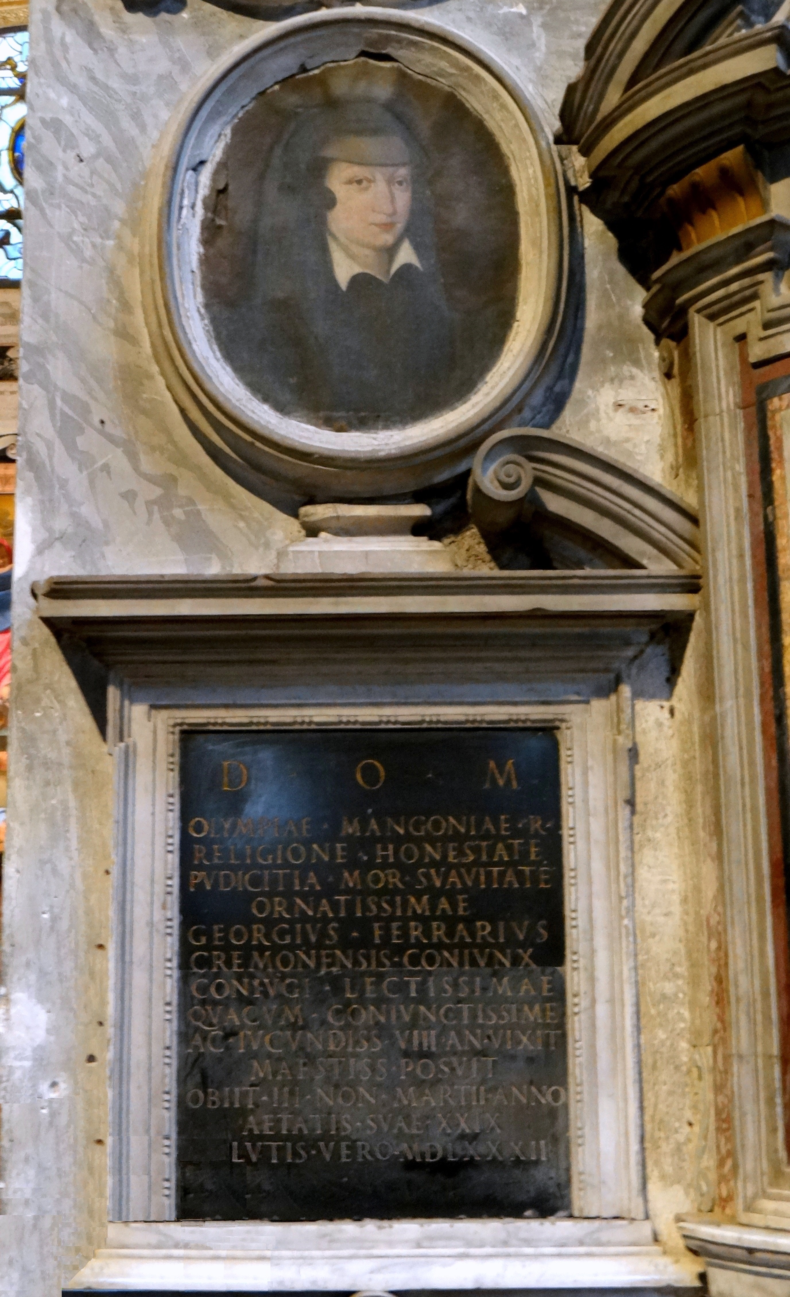 Funeral monument of Olimpia Mangoni in the Basilica of Santa Maria del Popolo, Rome (1582).